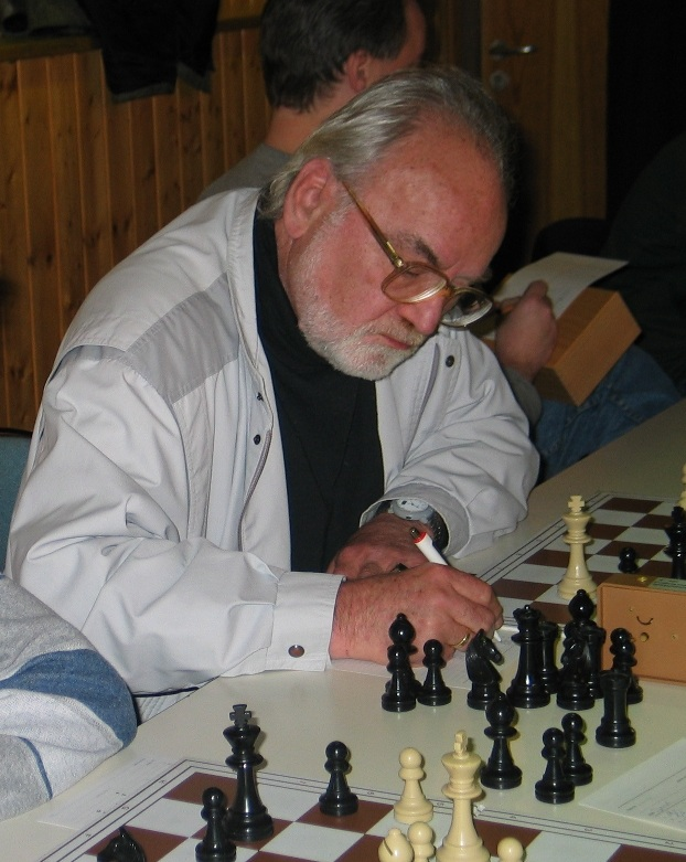 Wolf Böhringer playing a game of chess at the chess club.